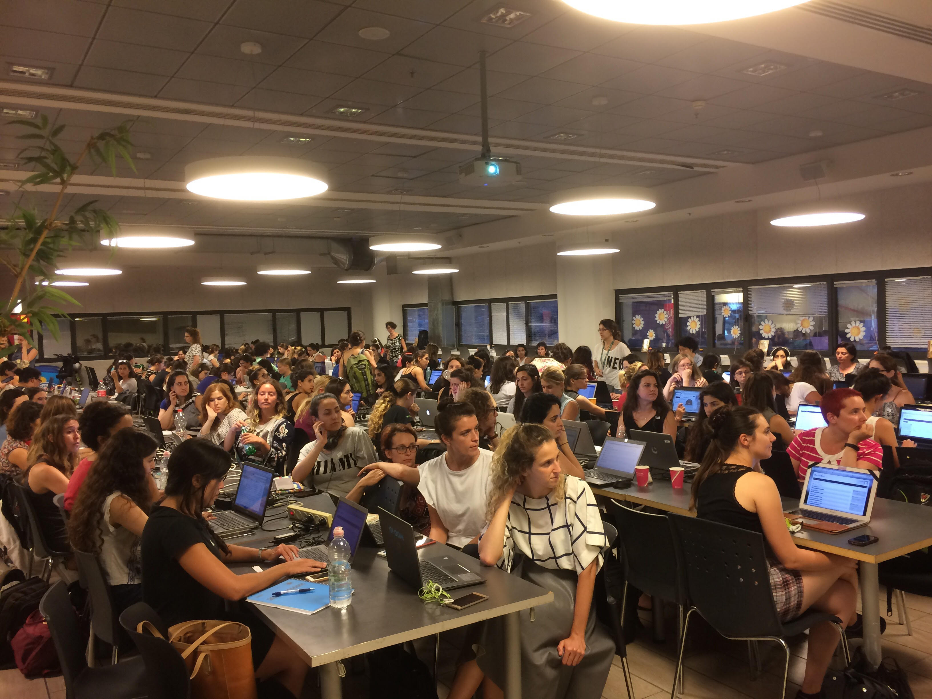 Track opening night